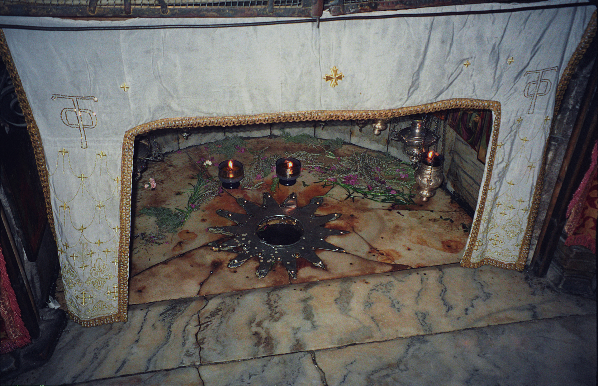 Church of the Nativity, Bethlehem